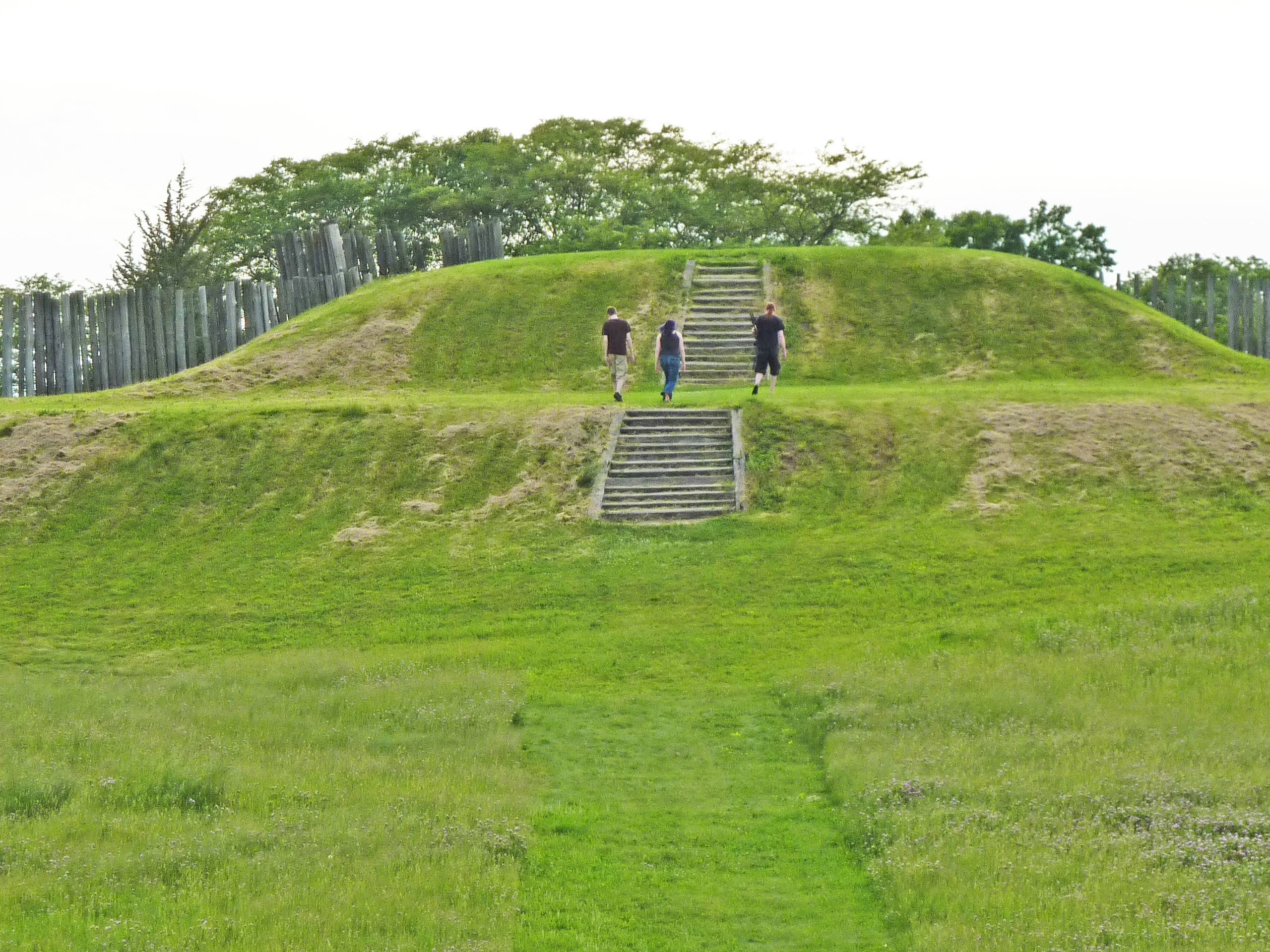 Steps on the side of a platform mound at Aztalan State Park in Aztalan, Wisconsin.